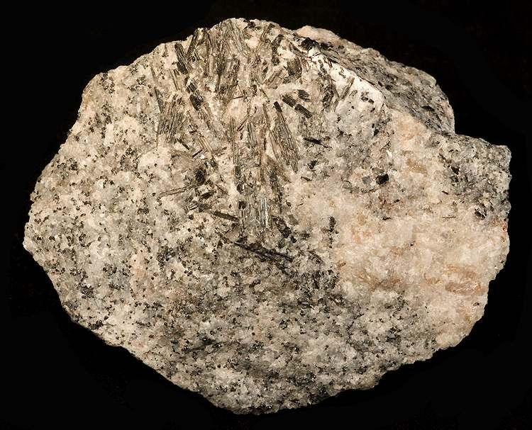 Pinakiolite Locality: Långban, Filipstad, Värmland, Sweden (Locality at ) Size: 6.7 x 5.4 x 3.4 cm. Pinakiolite is a very rare magnesium, manganese borate, unique in the world to the Langban deposit in Sweden. This is a fine, very rich specimen of large, lustrous, deep reddish-black laths to 1.2 cm concentrated in parallel-growth on the front of the specimen. Pinakiolite grains are richly peppered on both the front and back of the piece. Ex. Mullane Collection.